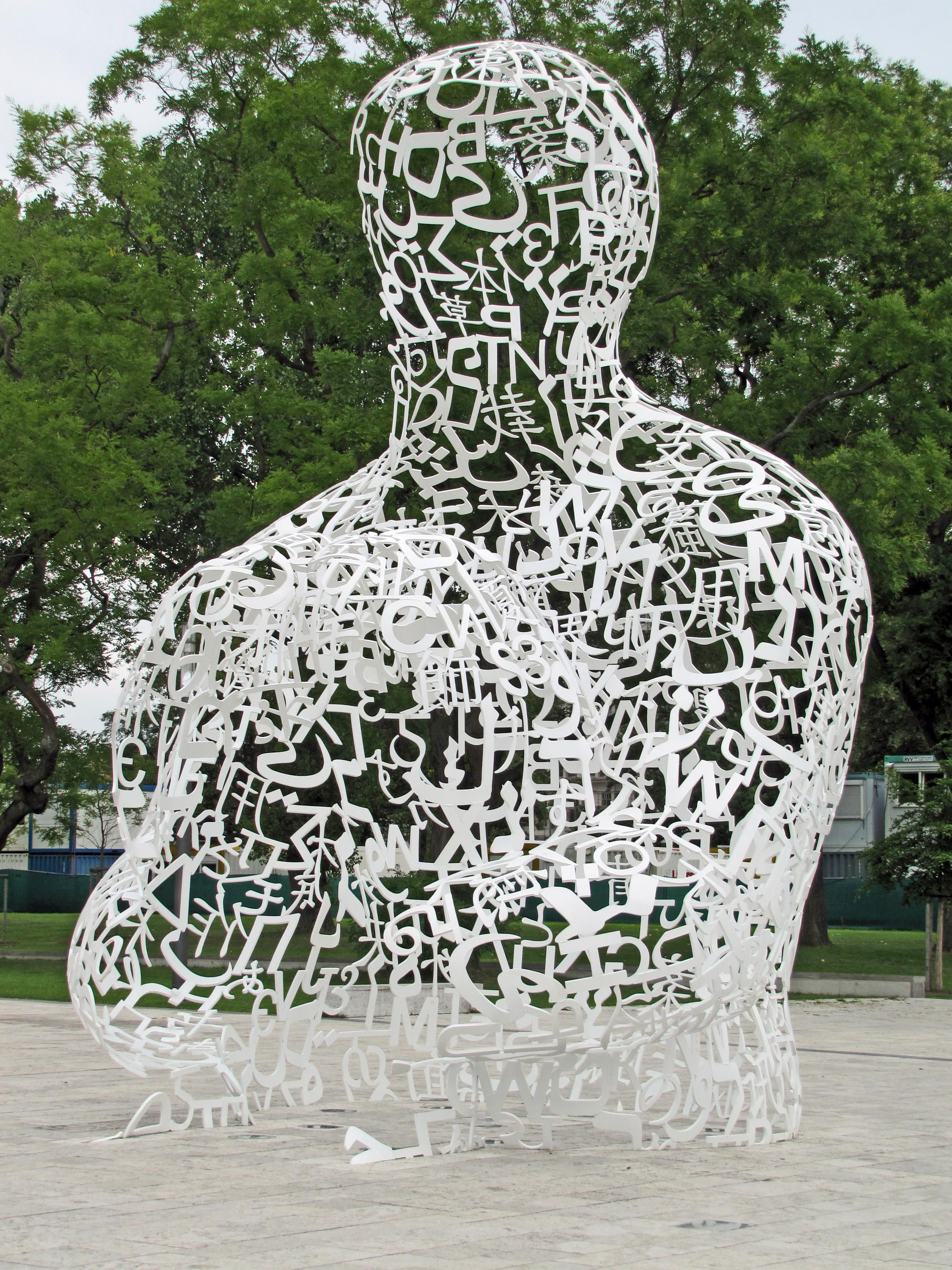 Body of Knowledge, 2010 from Jaume Plensa, steel sculpture, at Westend Campus of Goethe University Frankfurt.